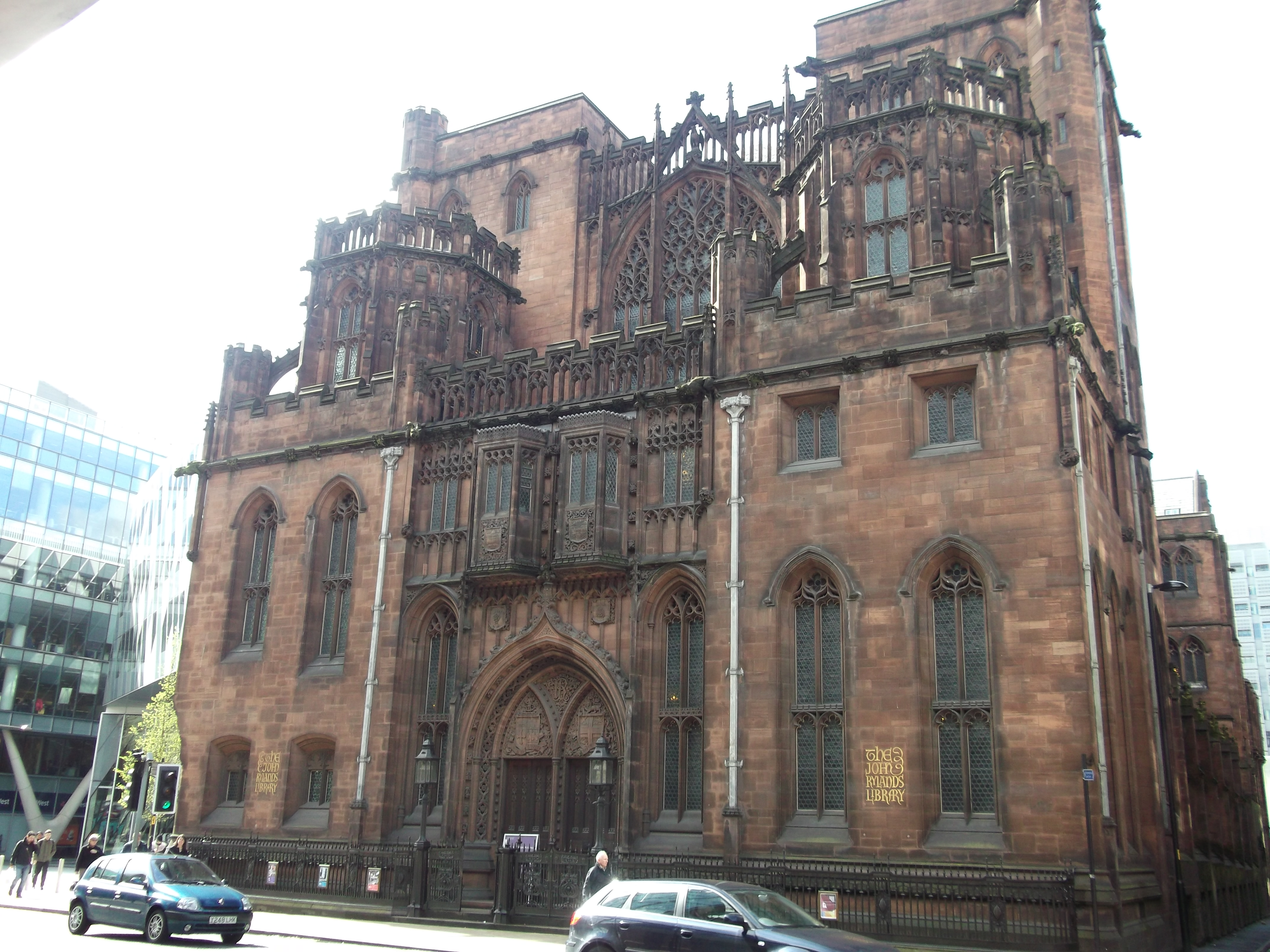 The frontage of John Rylands Library on Deansgate, Manchester.